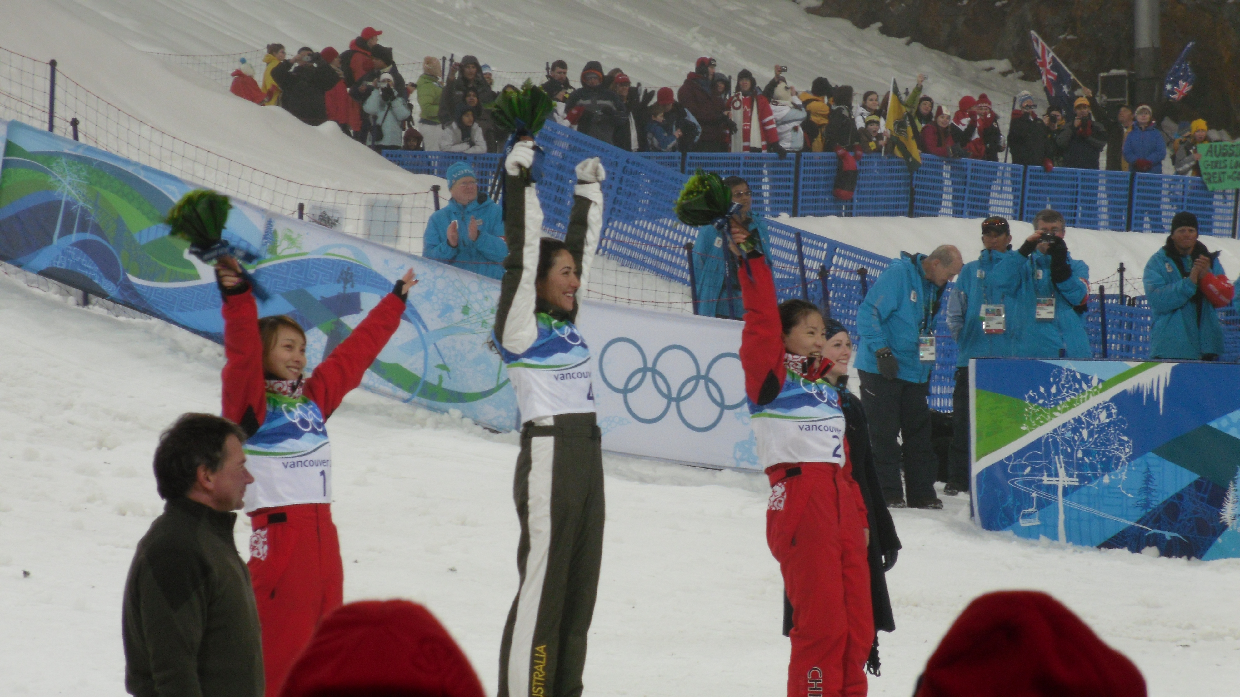 The flower ceremony for the Women's aerialists at the 2010 Winter Olympics. From left: Li Nina (silver), Lydia Lassila (gold) and Guo Xinxin (bronze).